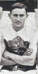 This is an image of former Australian rules footballer Wally Koochew, taken in 1908 and is in the public domain in Australian and the United States. Image accessed from